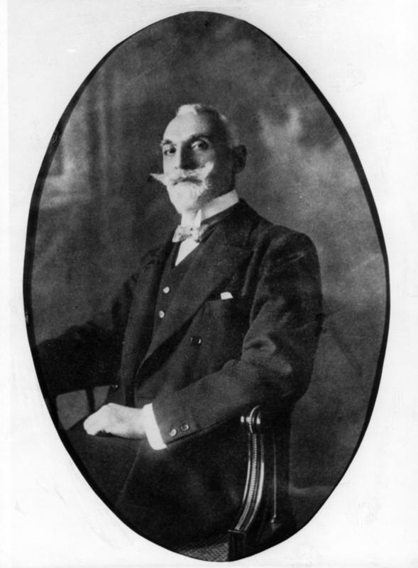 Portrait